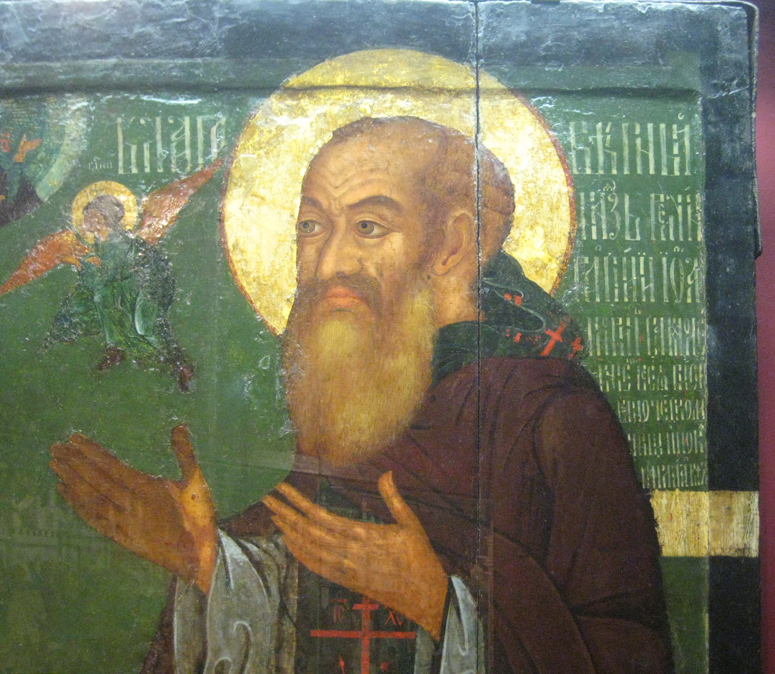 St. Basil of Caesarea and prince Vasili III of Russia. Icon.